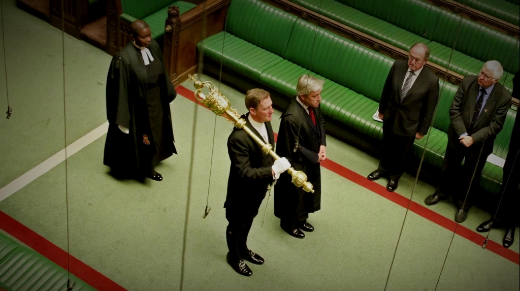 The Speaker and the Serjeant-at-Arms walk together into the chamber of the House of Commons.